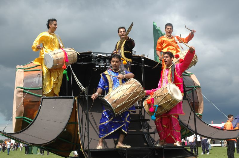 Dhol players at London Mela